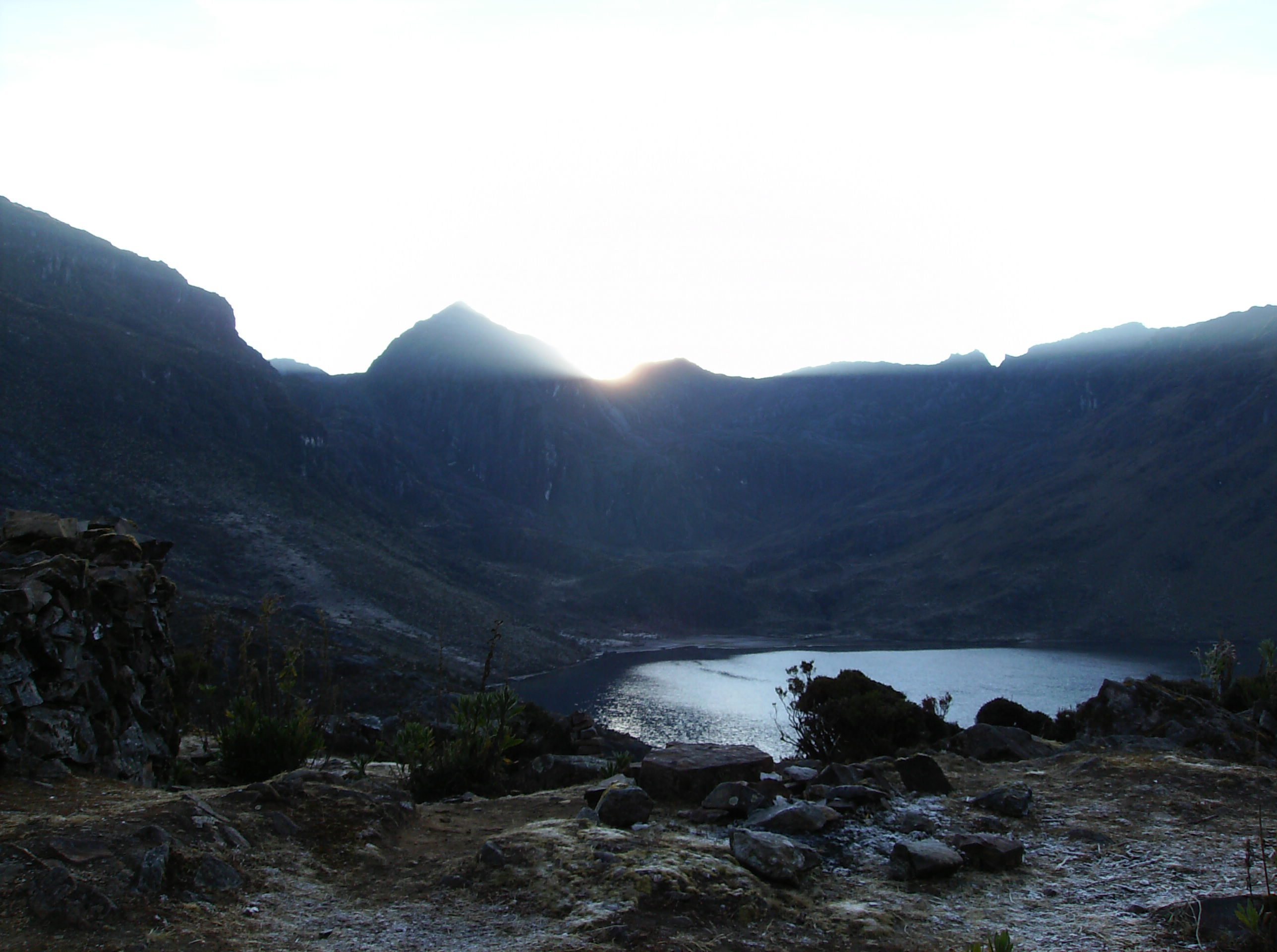 Merida